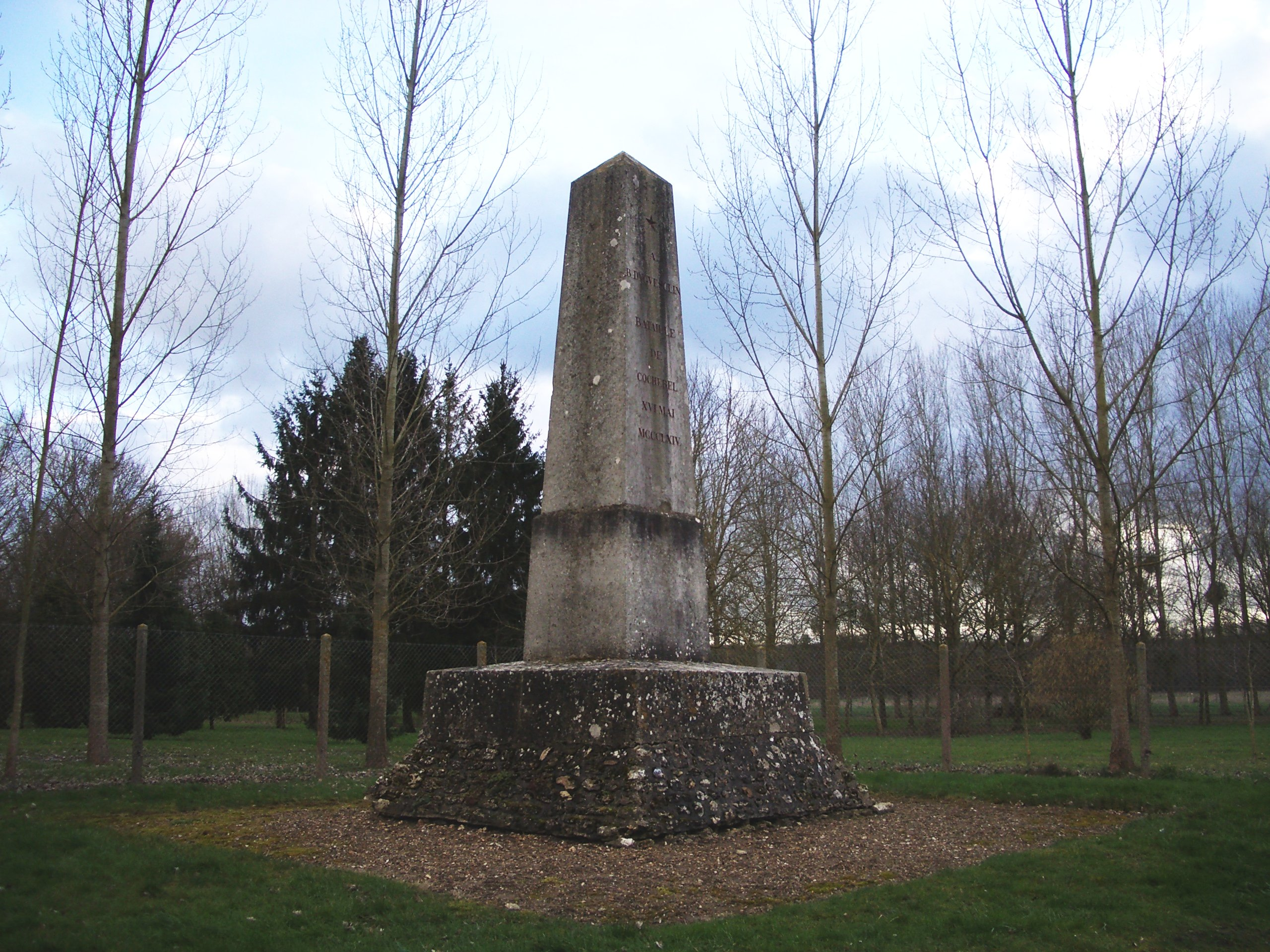 Monument remembering the Battle at Cocherel (Hardencourt-Cocherel, Eure, Normandy, France) in 1364 ; dedicated to Bertrand du Guesclin